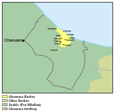 Map of Ghomara Berber speaking areas (in yellow), according to P. Behnstedt's "La frontera entre el bereber y el árabe en el Rif" [1]. Note: not all villages are mentioned.